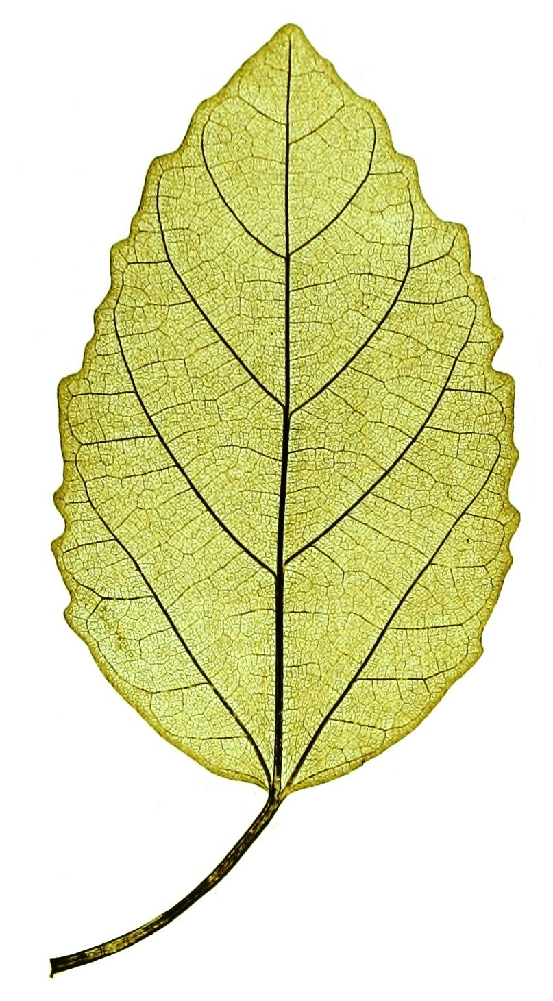 Title: Denkschriften der Kaiserlichen Akademie der Wissenschaften / Mathematisch-Naturwissenschaftliche Classe Year: 1858 (1850s) Authors: Kaiserl. Akademie der Wissenschaften in Wien. Mathematisch-Naturwissenschaftliche Klasse Subjects: Mathematics; Science Publisher: Wien : Aus der Kaiserlich-Königlichen Hof- und Staatsdruckerei Text Appearing Before Image: C. v. Ettingshausen. Die Blattskelete der Apetalen. Taf. XV. Text Appearing After Image: Fig. 1 u. 2. Ficus henghalensis L. Fig. 3. Ficus capensis Thunbg. Fig. 4—6. Ficus pumila L. Fig. 7. Ficus sp. Ostind. Fig. 8. Ficus americana Aubl. Fig. 9 u. 10. Ficus cestrifolia Schott. Denkschriften der mathem.-naturw. Cl. XV. Bd. 1858. Naturselbstdruck aus der k. k. Hoff- und Staatsdruckerei